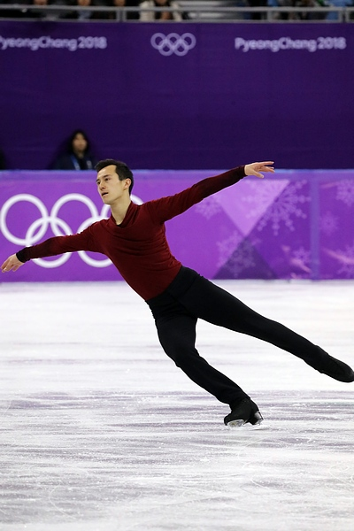 Patrick Chan (CAN) skates his free program at the 2018 Winter Olympic Games in PyeongChang (KOR)